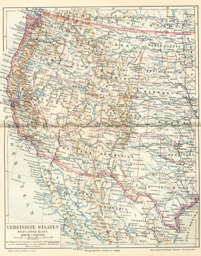 This is page 104 of 1026, in Volume 16 of the German illustrated encyclopedia Meyers Konversationslexikon, 4th edition (1885-1890), fraktur font.